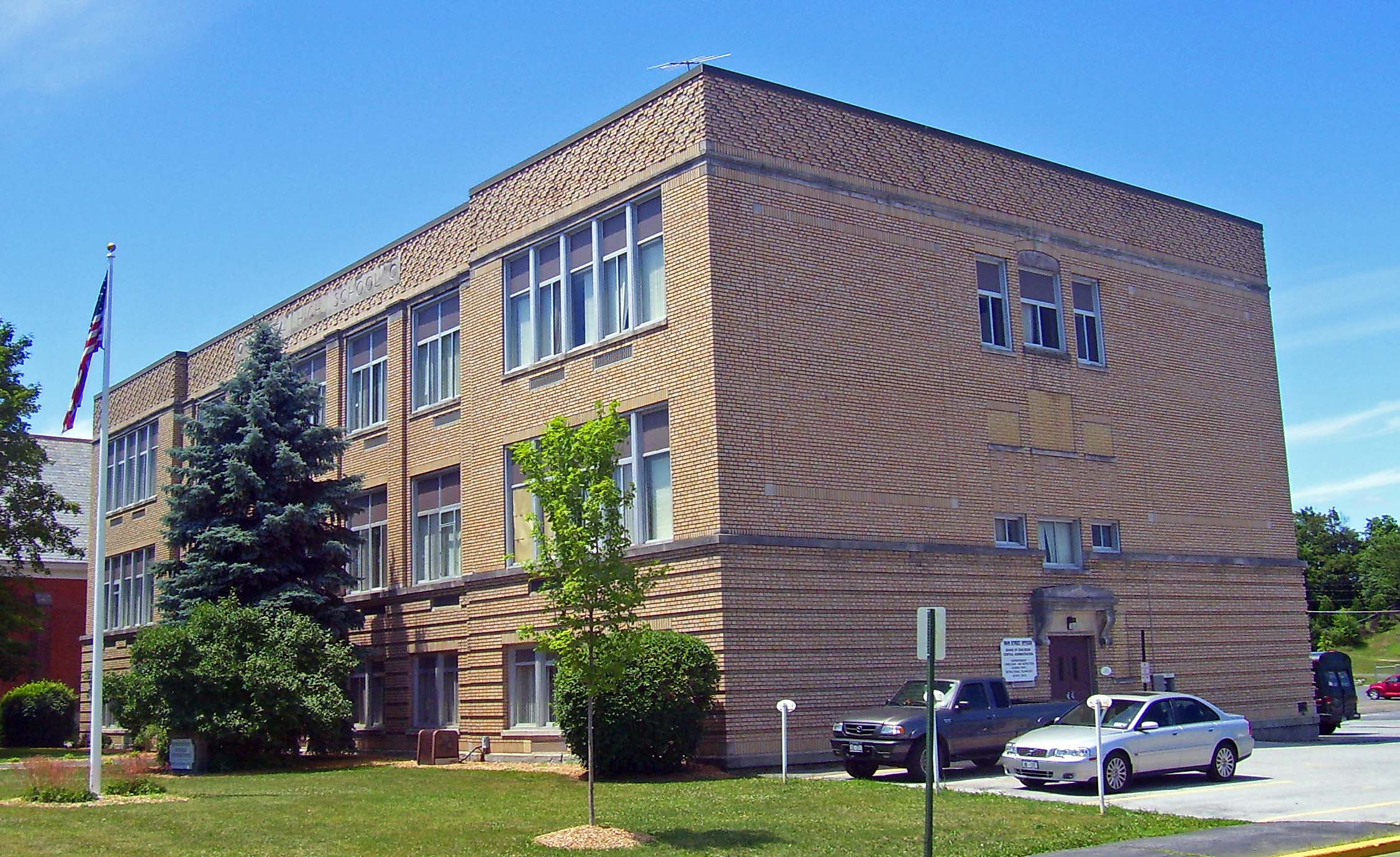 Former Goshen High School in Goshen, NY, USA, now used as main administration building by the Goshen Central School District